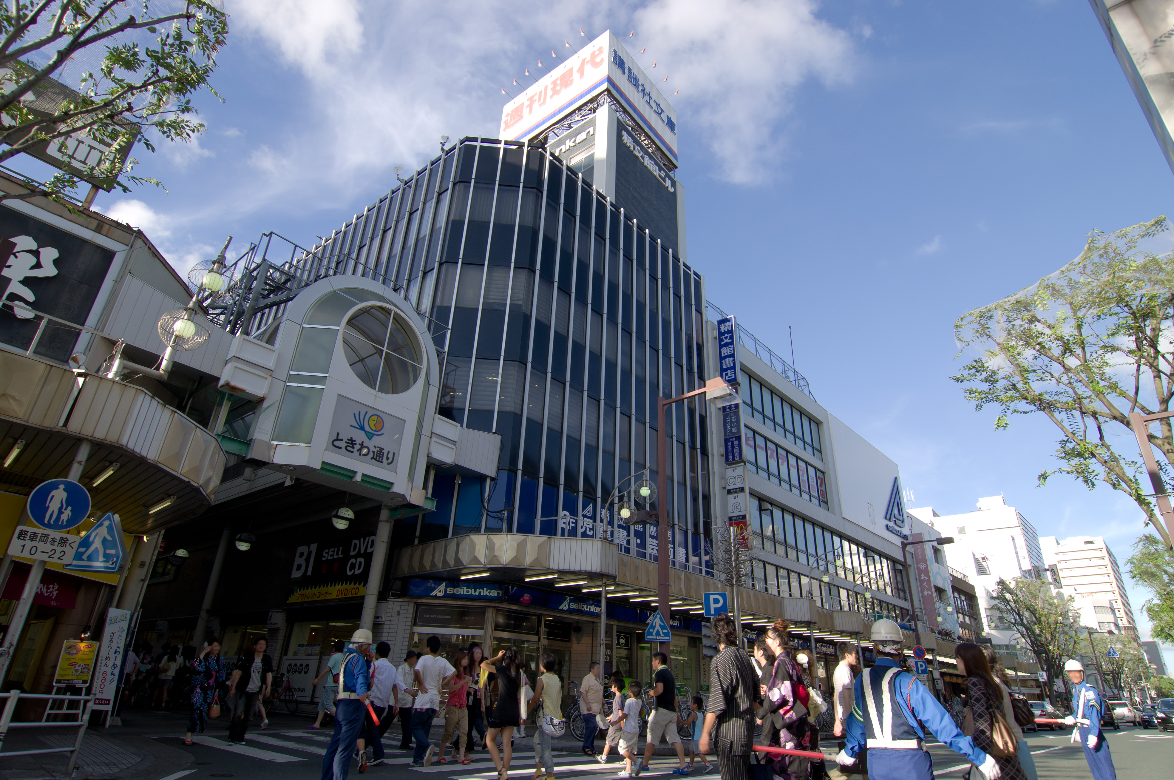 Seibunkan-shoten (Bookshop) Head office in Toyohashi, Aichi, Japan